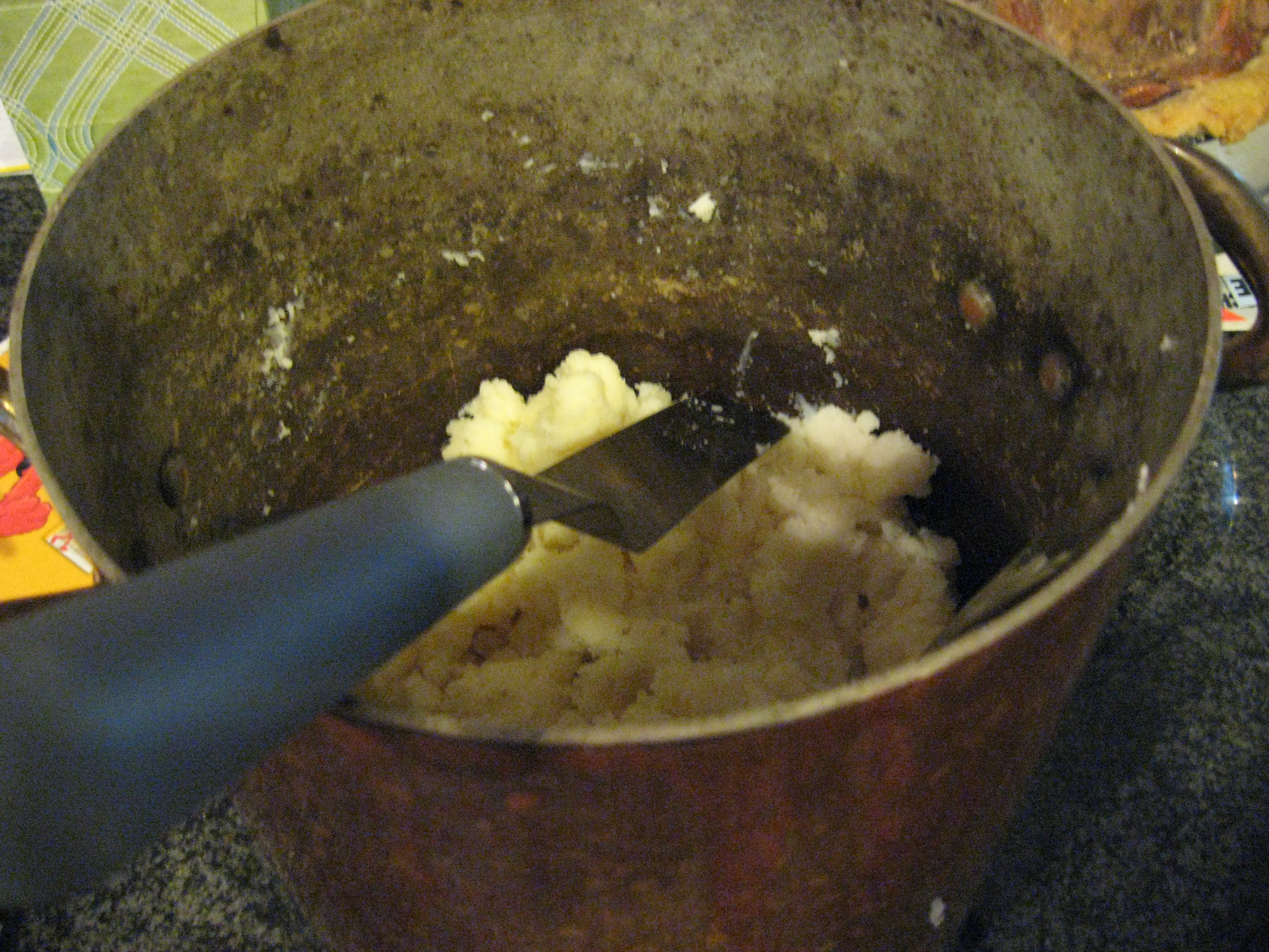 Normally I would not use such a thing, but it really does a fine job for frosting, and they are better than I had anticipated.